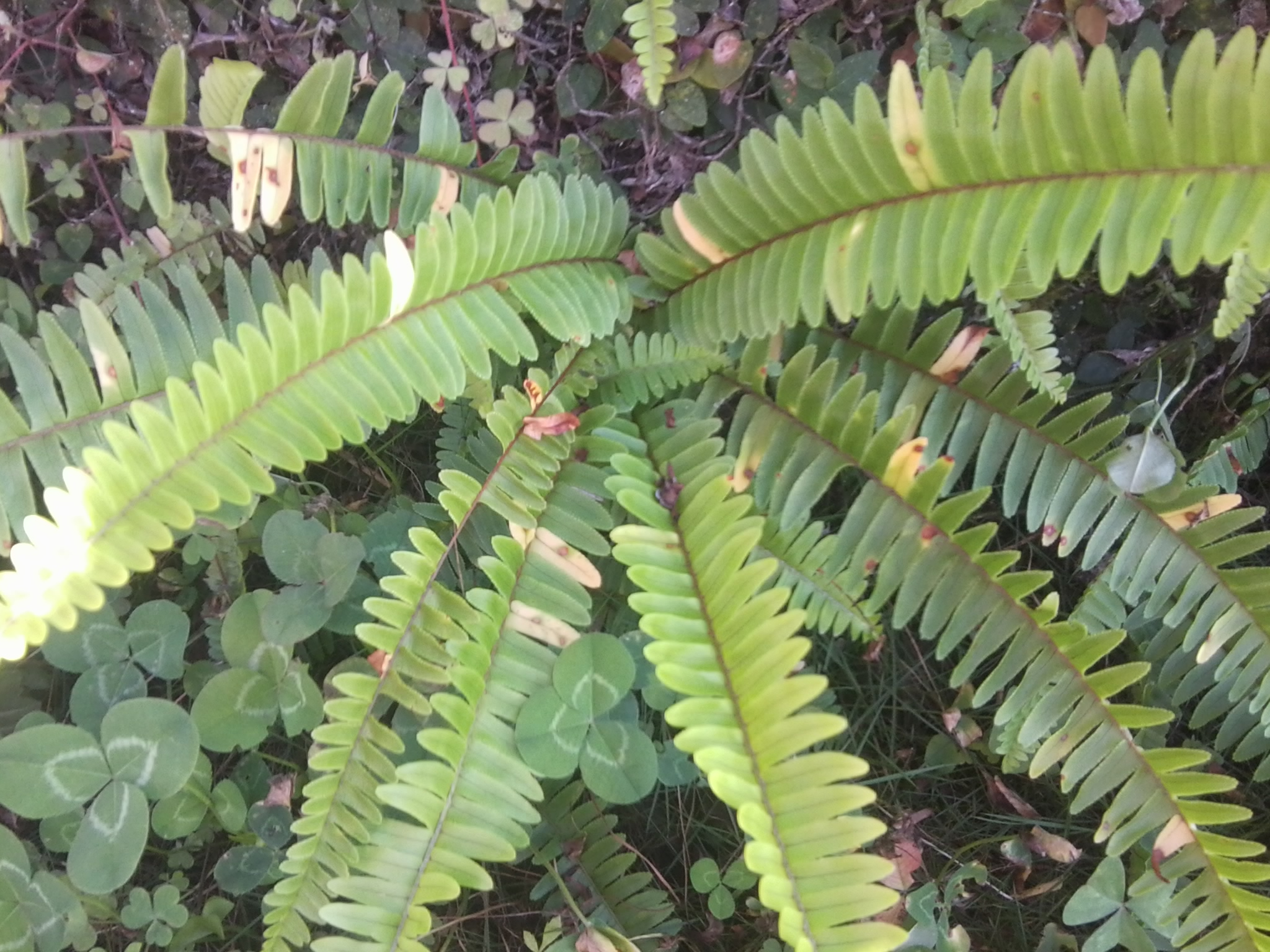 Nephrolepis cordifolia in Nepal.